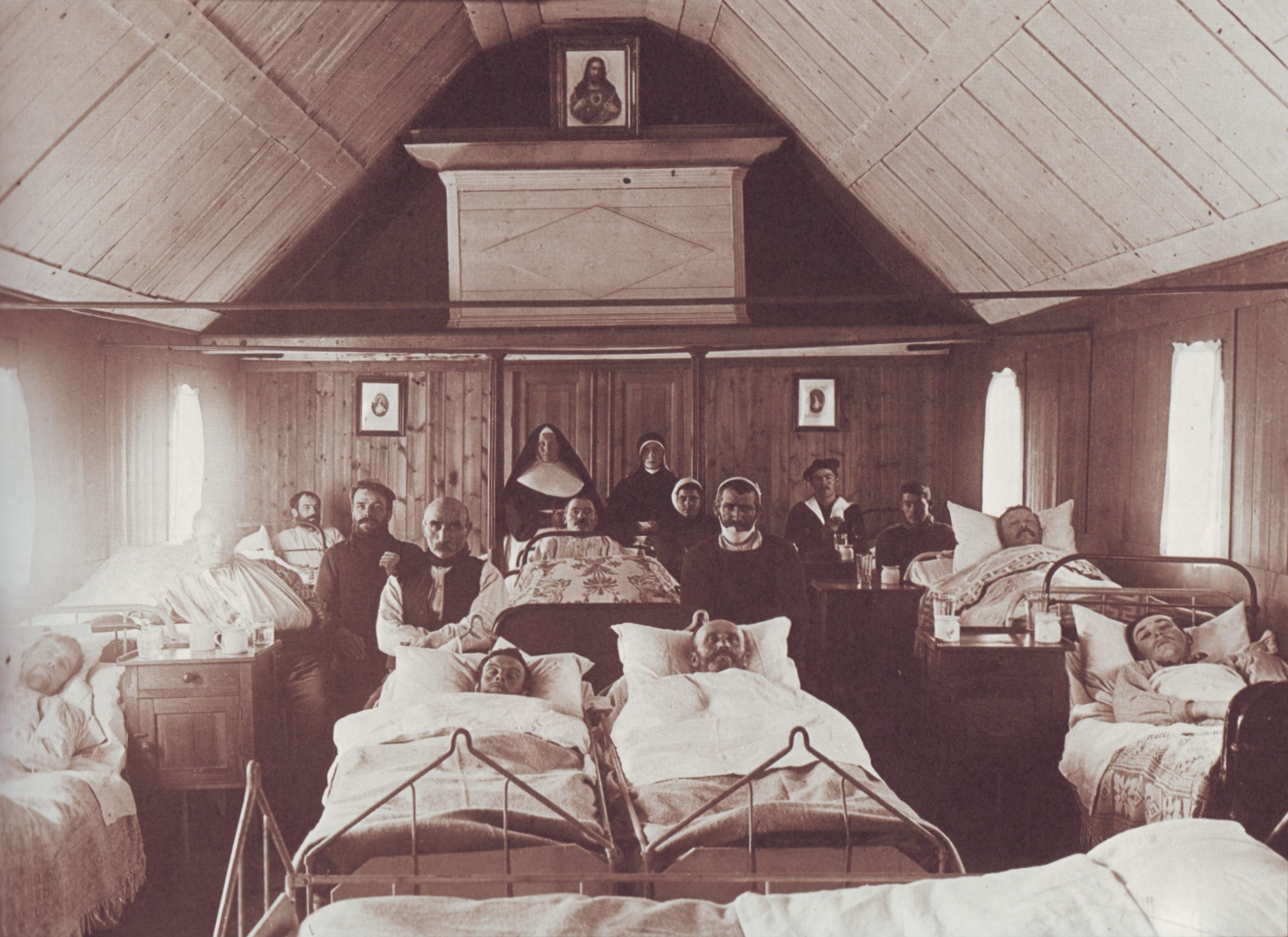 The old chapel of Landakot.